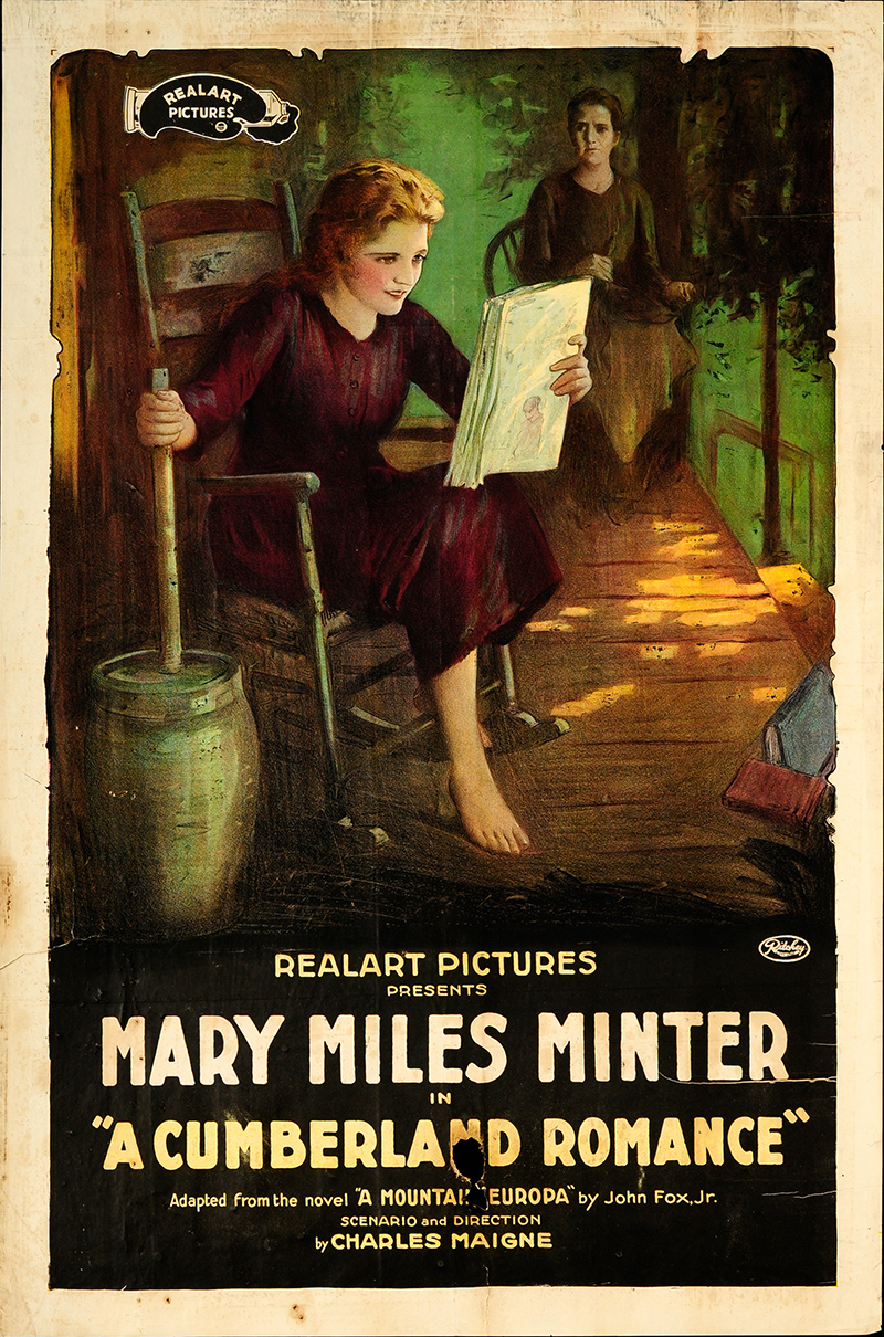 This is a poster for the 1920 film A Cumberland Romance.